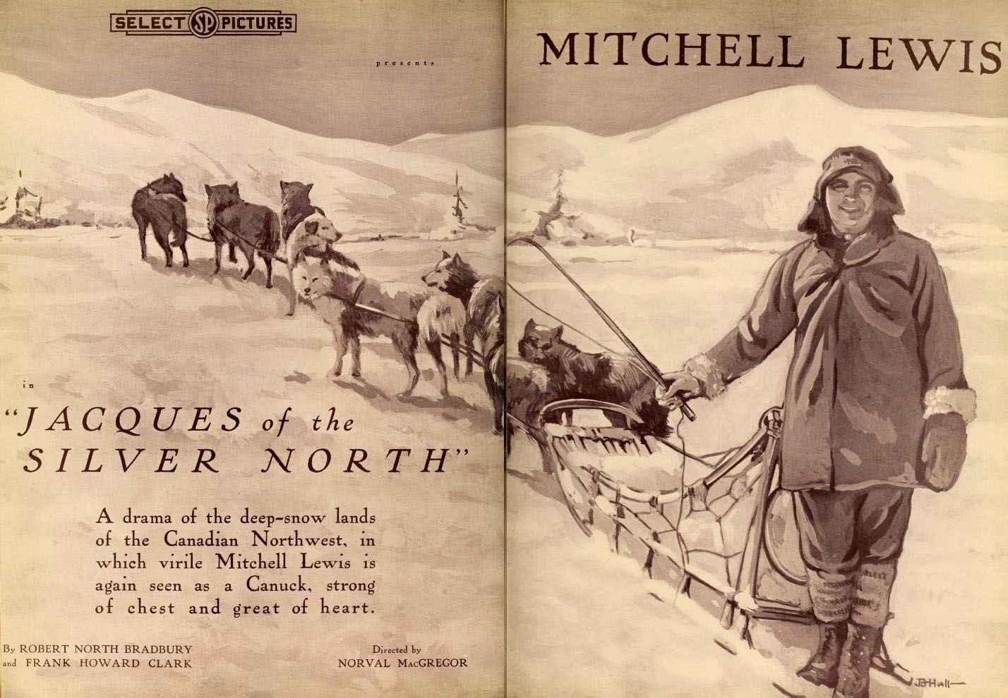 Advertisement for Jacques of the Silver North, a film with Mitchell Lewis. Moving Picture World, June 1919.